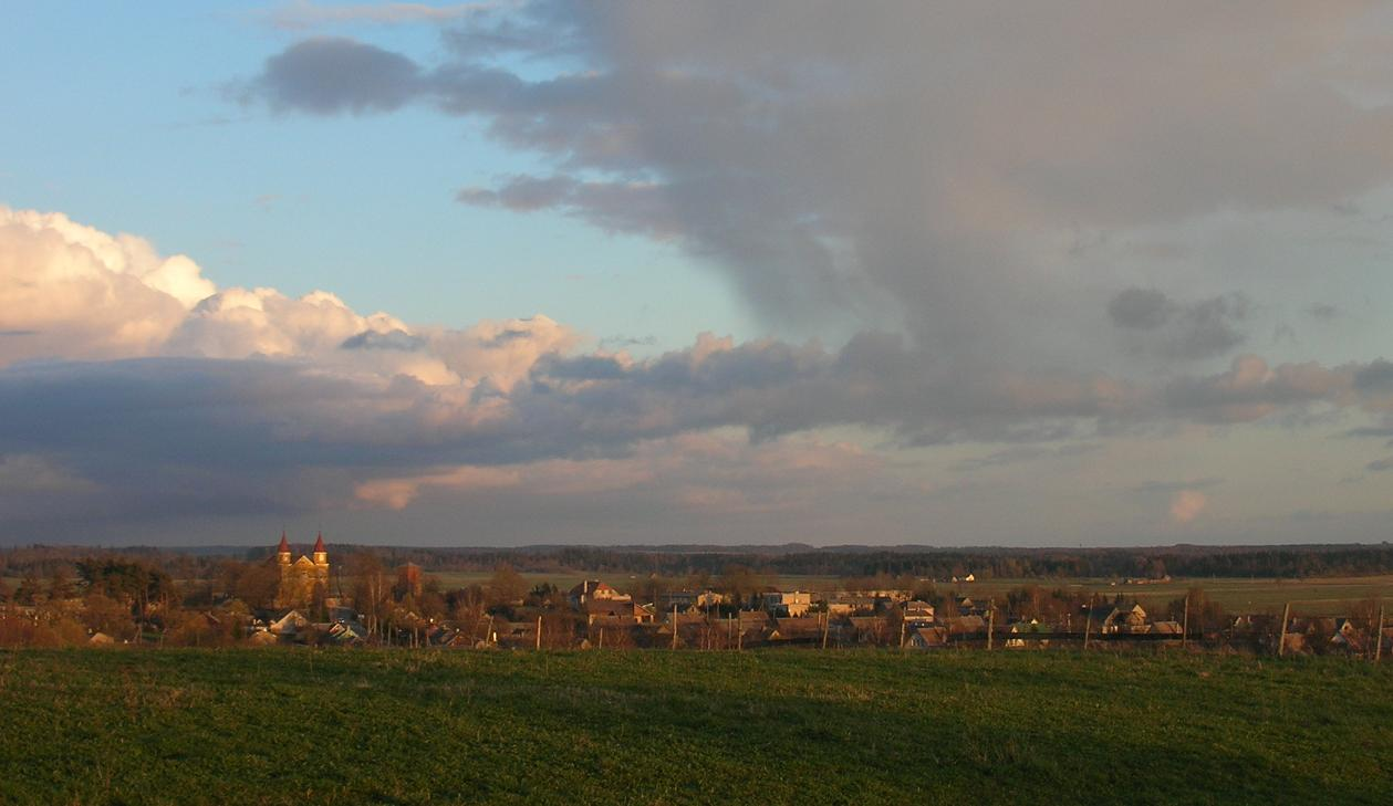 Panorama of Tverai, Lithuania, looking from Patverys